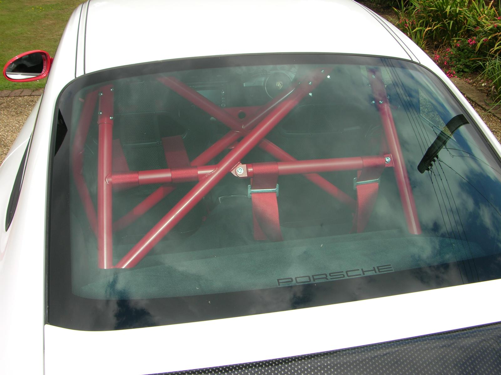 Red roll cage in a 2010 Porsche 911 GT3 RS 3.8 (997).